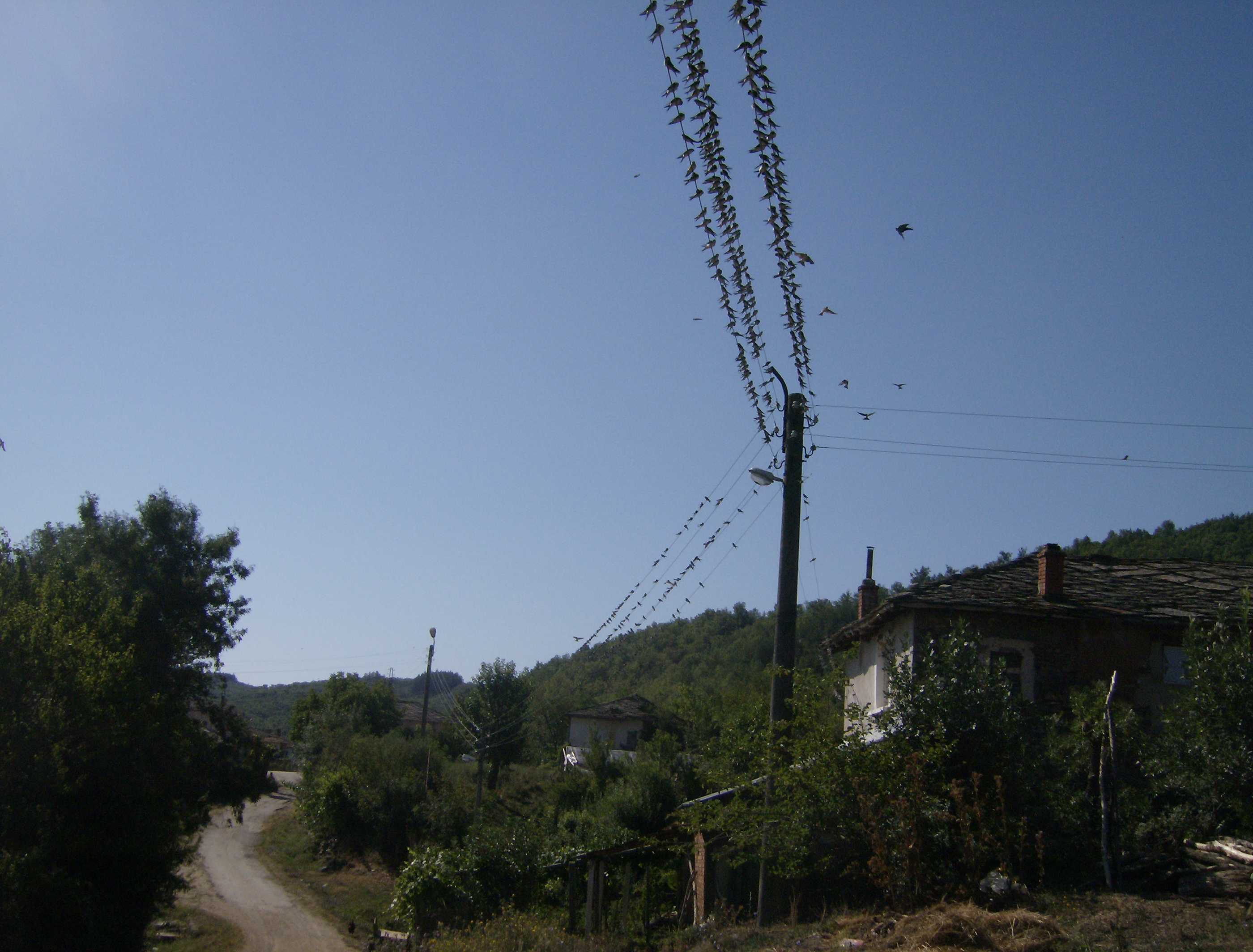 Meden buk